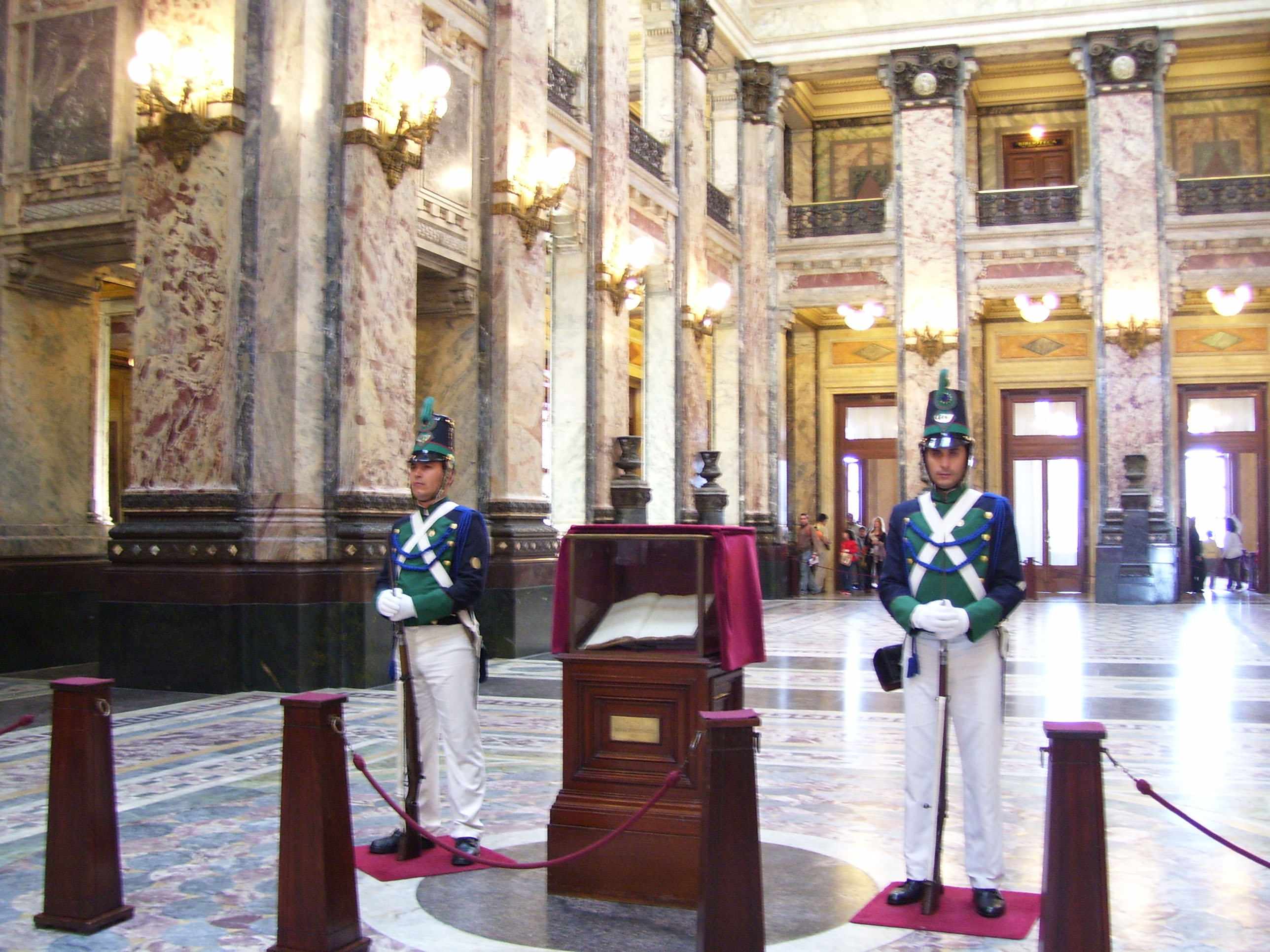 Photo of the First Constitution of Uruguay in the "Salon de los Pasos Perdidos (Room of Lost Steps) in the "Palacio Legislativo" (Palace of Laws), with a military custody. Photo taken the "Patrimony´s Day", september 2010.